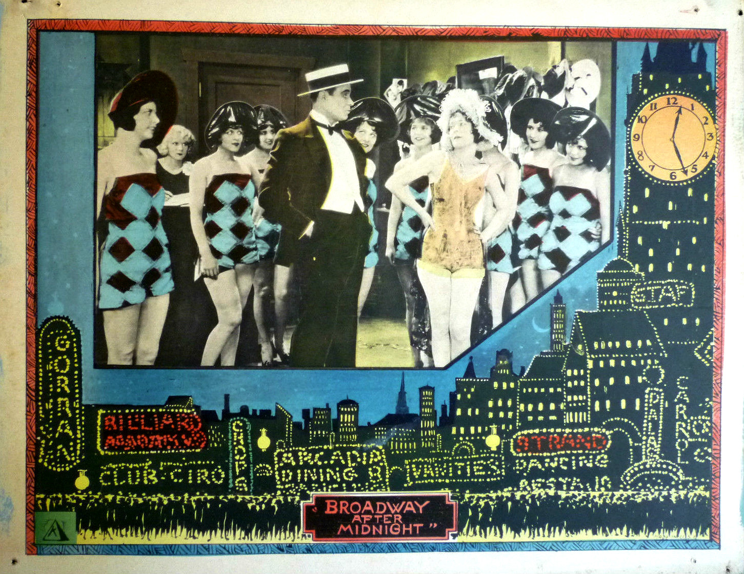 Lobby card for the American drama film Broadway After Midnight (1927).